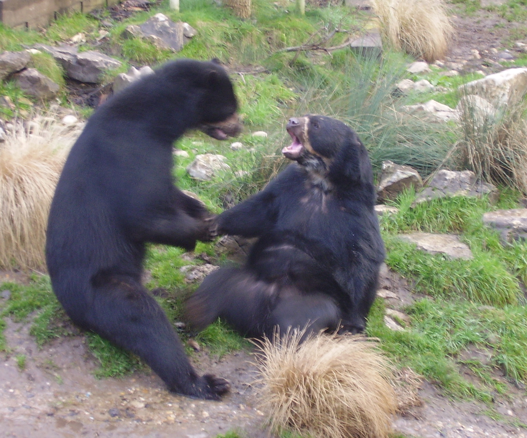 Spectacled bear in Lyon's zoo